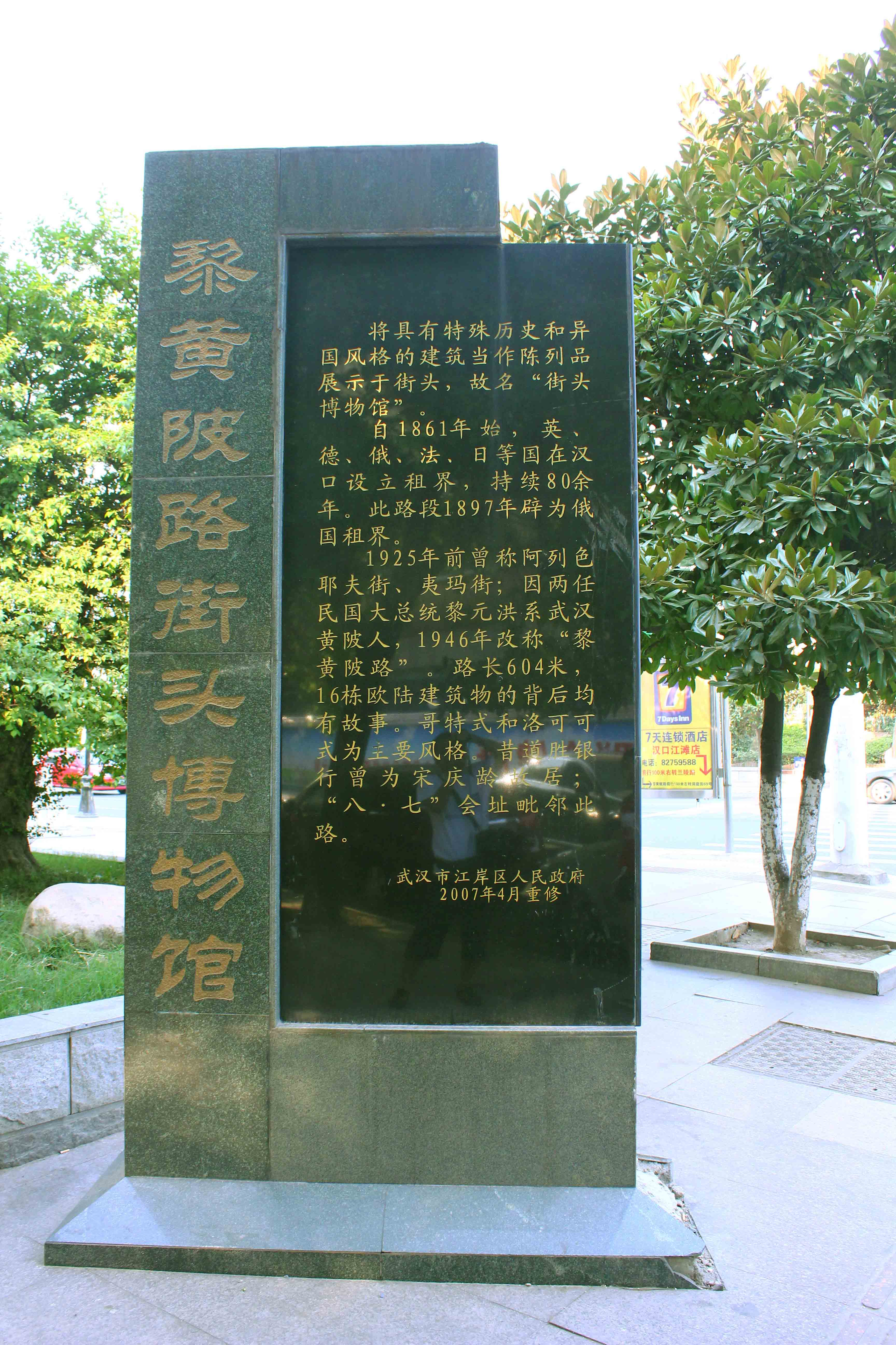 LiHuangPi Road，Wuhan，China.